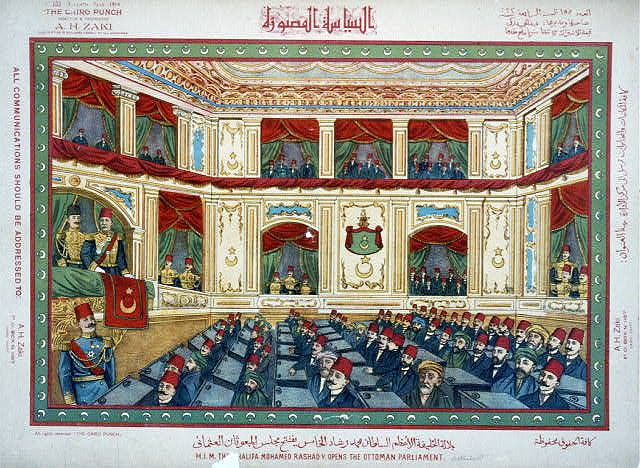 The Ottoman Parliament depicted on an old postcard before 1918.